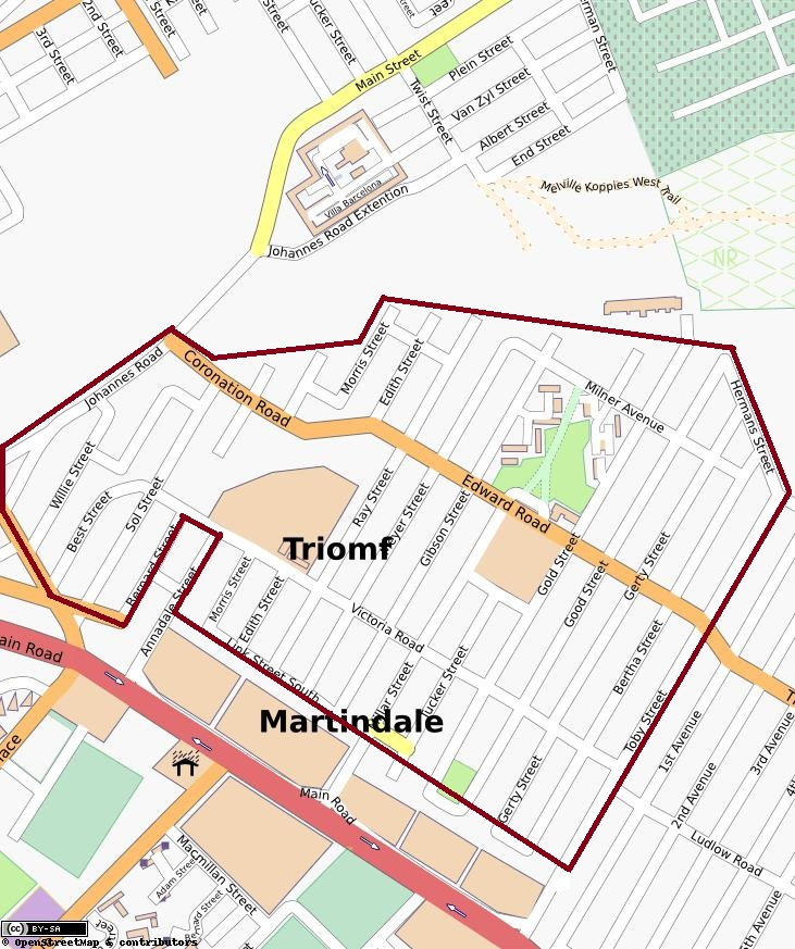 Map showing the boundaries of Sophiatown, a suburb of Johannesburg,and site of a major relocation under the Apartheid regime in South Africa